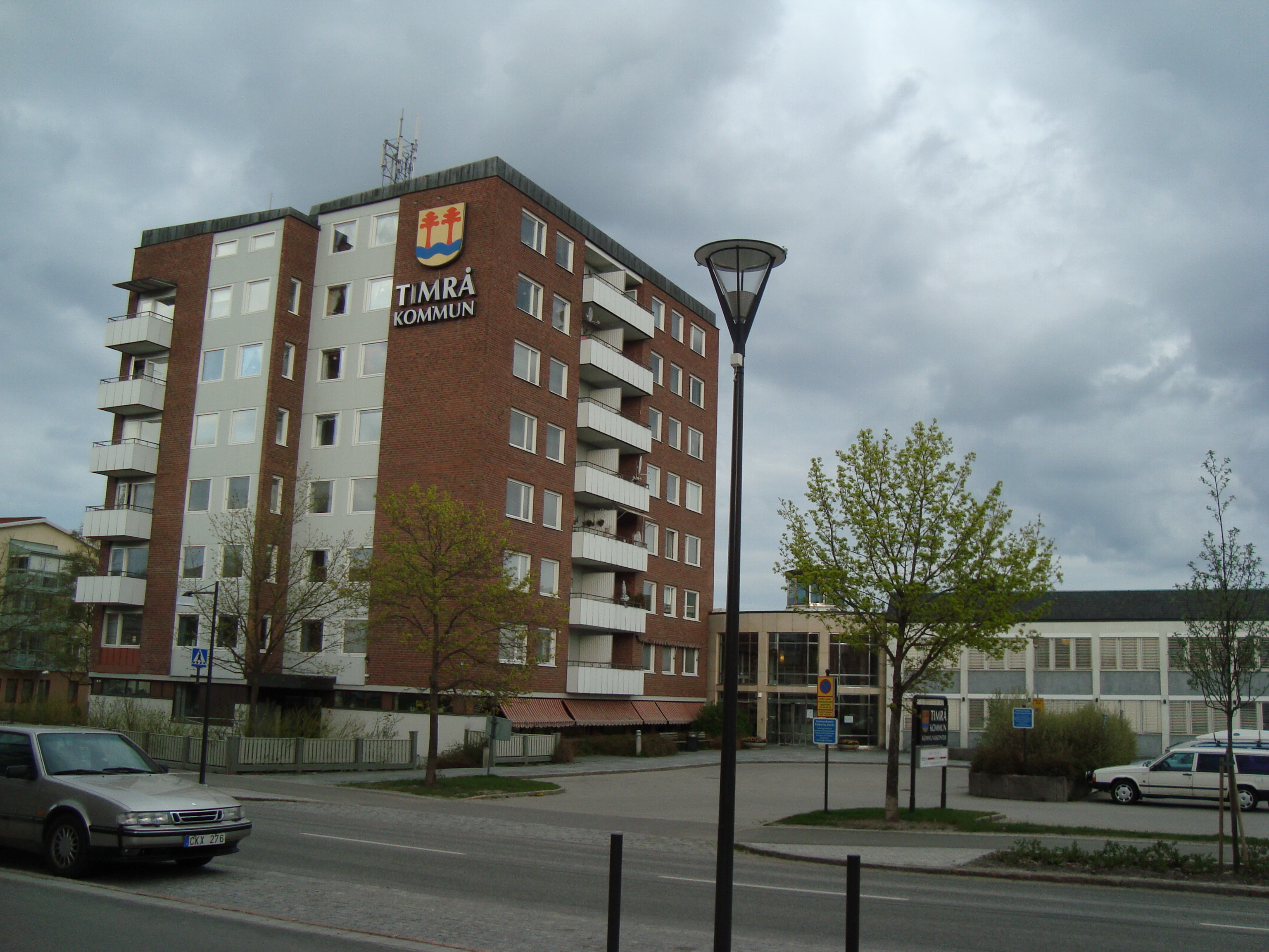 The seat of the municipality of Timrå.